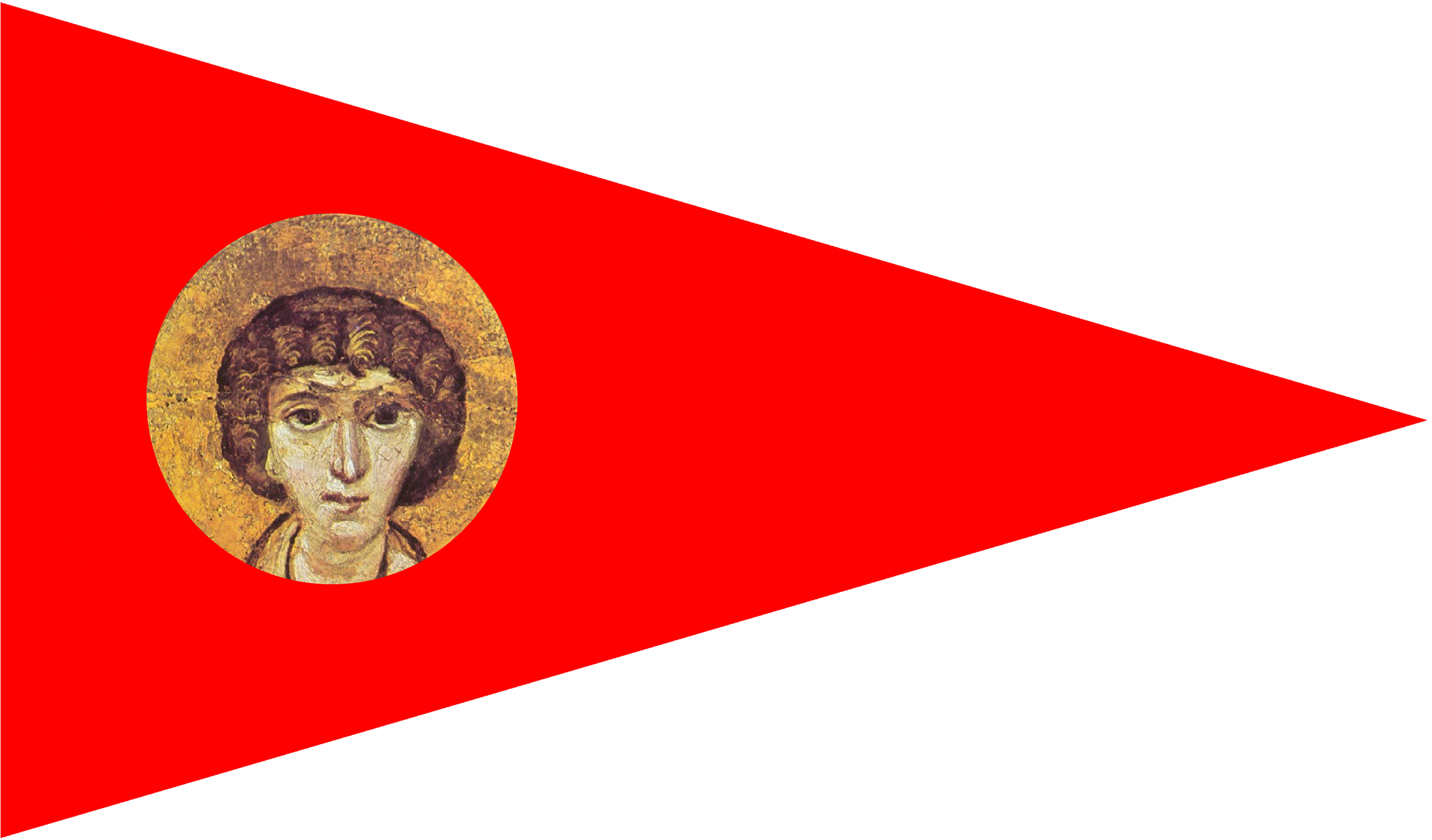 The war banner of the Ghassanid state, bearing the picture of St.Sergius. Re-made by Stgbarcher.* New image of St.Sergius etc.